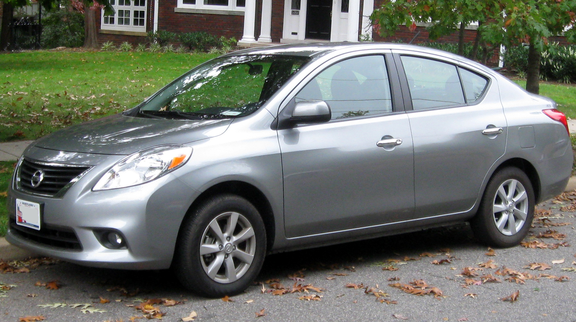 2012 Nissan Versa photographed in Washington, D.C., USA.